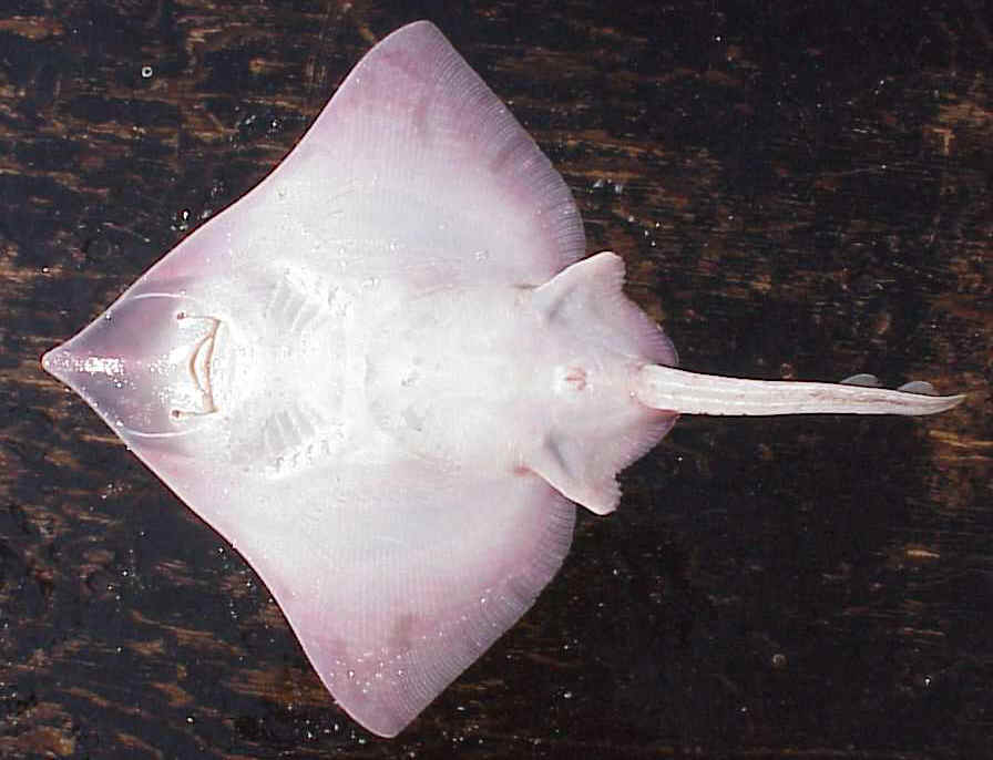 Big skate (Beringraja binoculata - synonym: Raja binoculata)